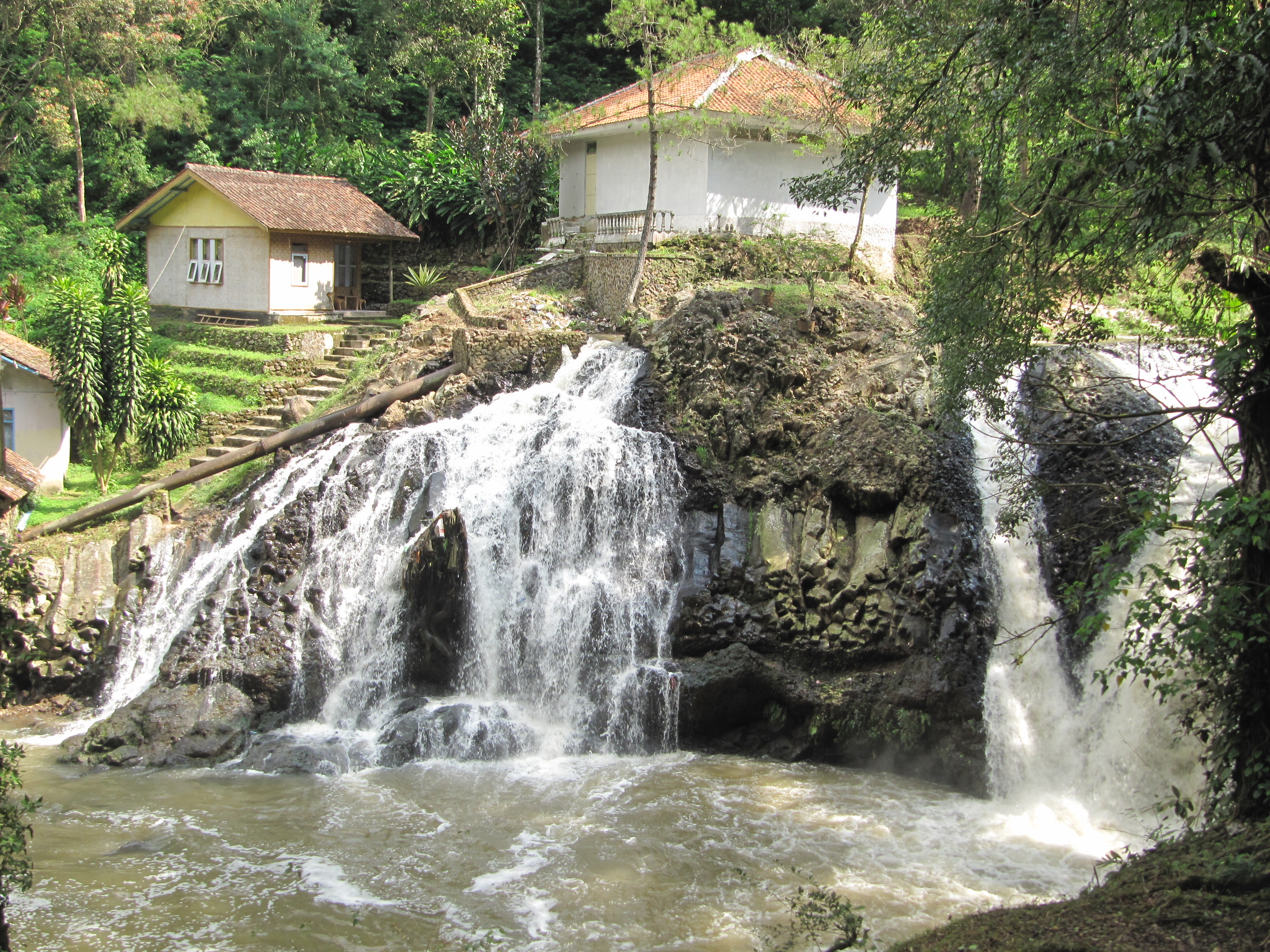 Maribaya Waterfall